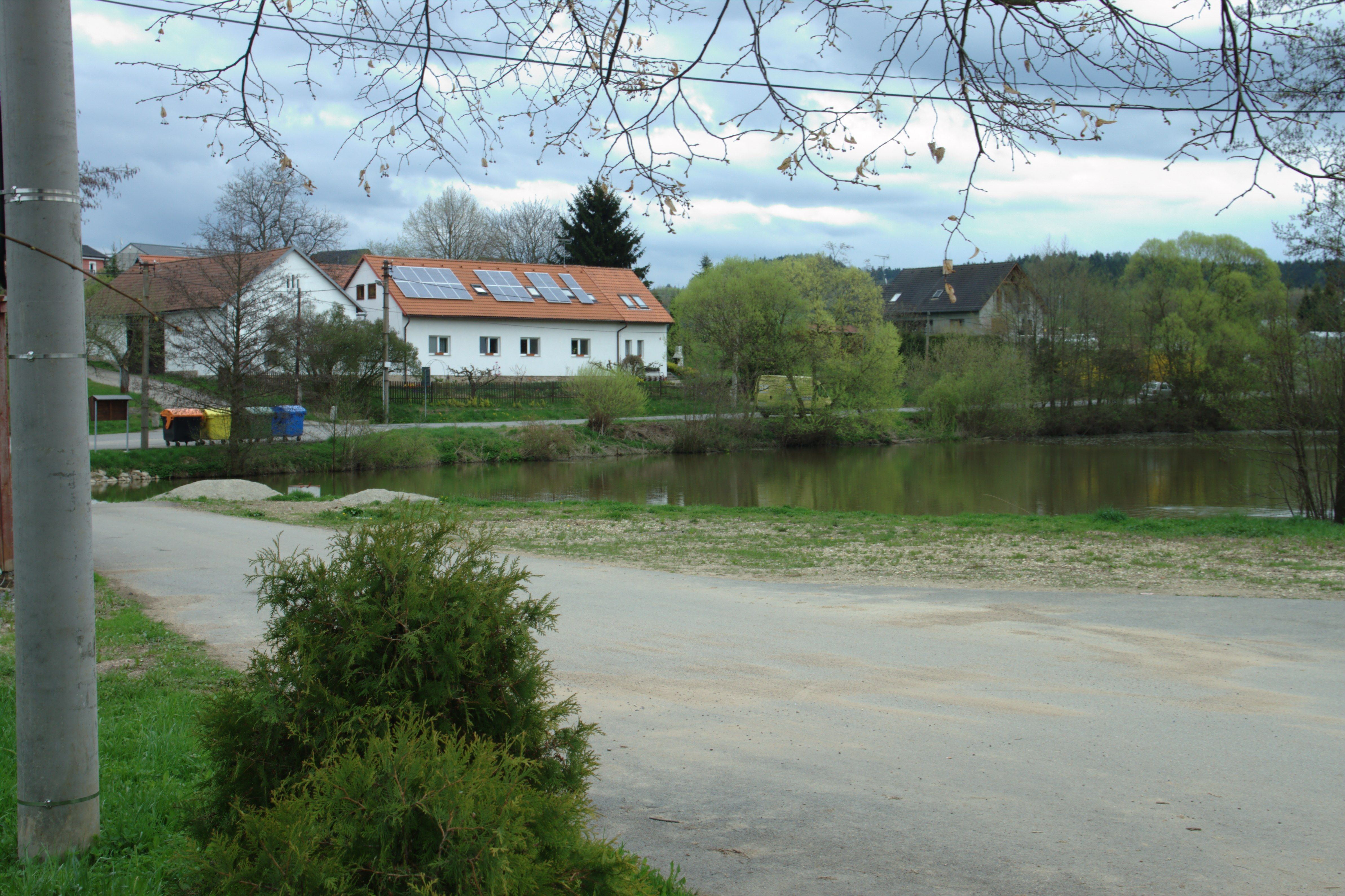 The pond dam in the village of Horní Podhájí, Central Bohemian Region, CZ